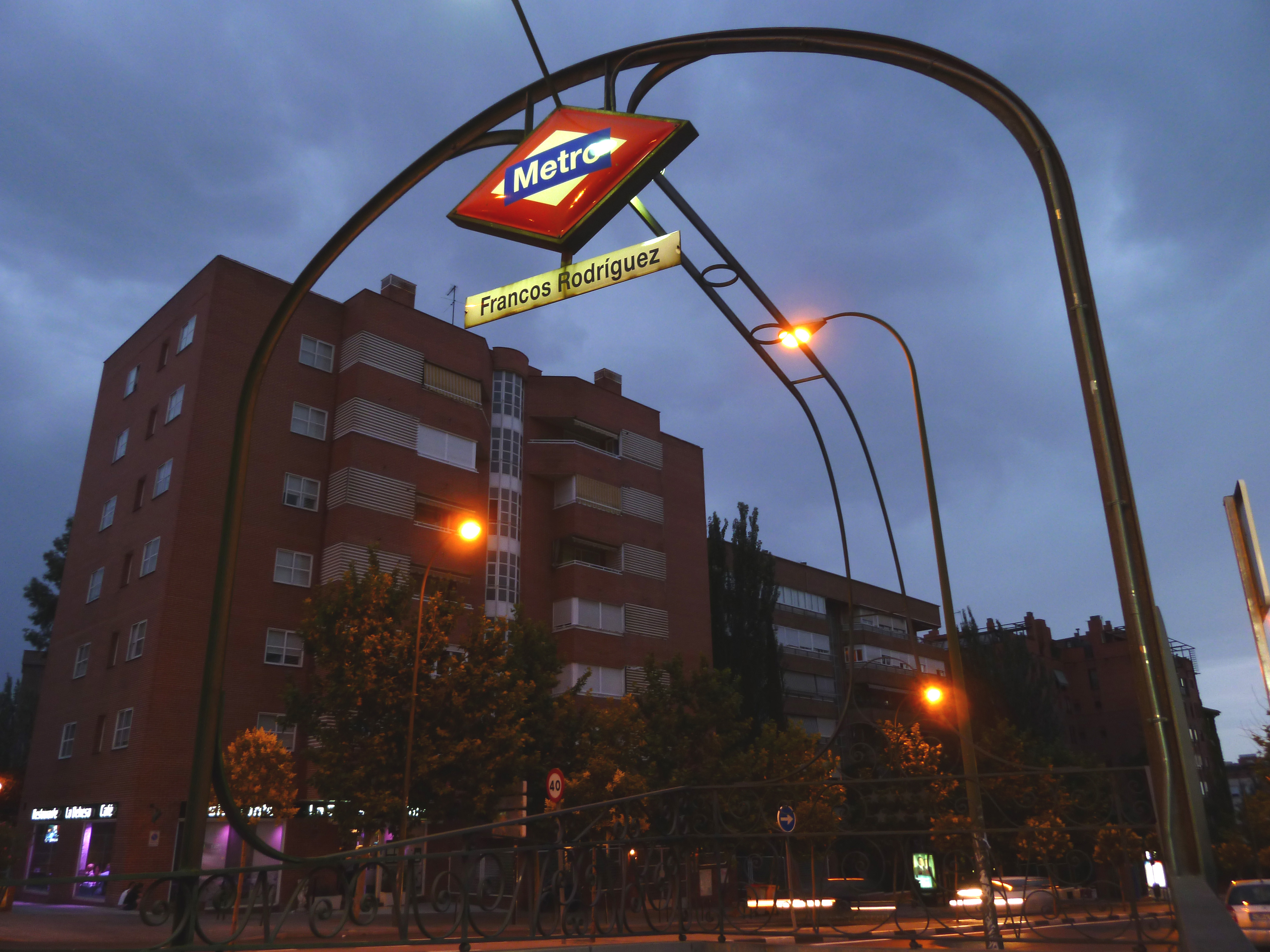 Entrance of Francos Rodríguez metro station in Madrid (Spain), at 91 Calle de Pablo Iglesias (street) in Moncloa-Aravaca district.